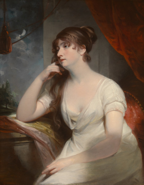 Maria Ann Campion Pope by Sir Martin Archer Shee in guess 1800